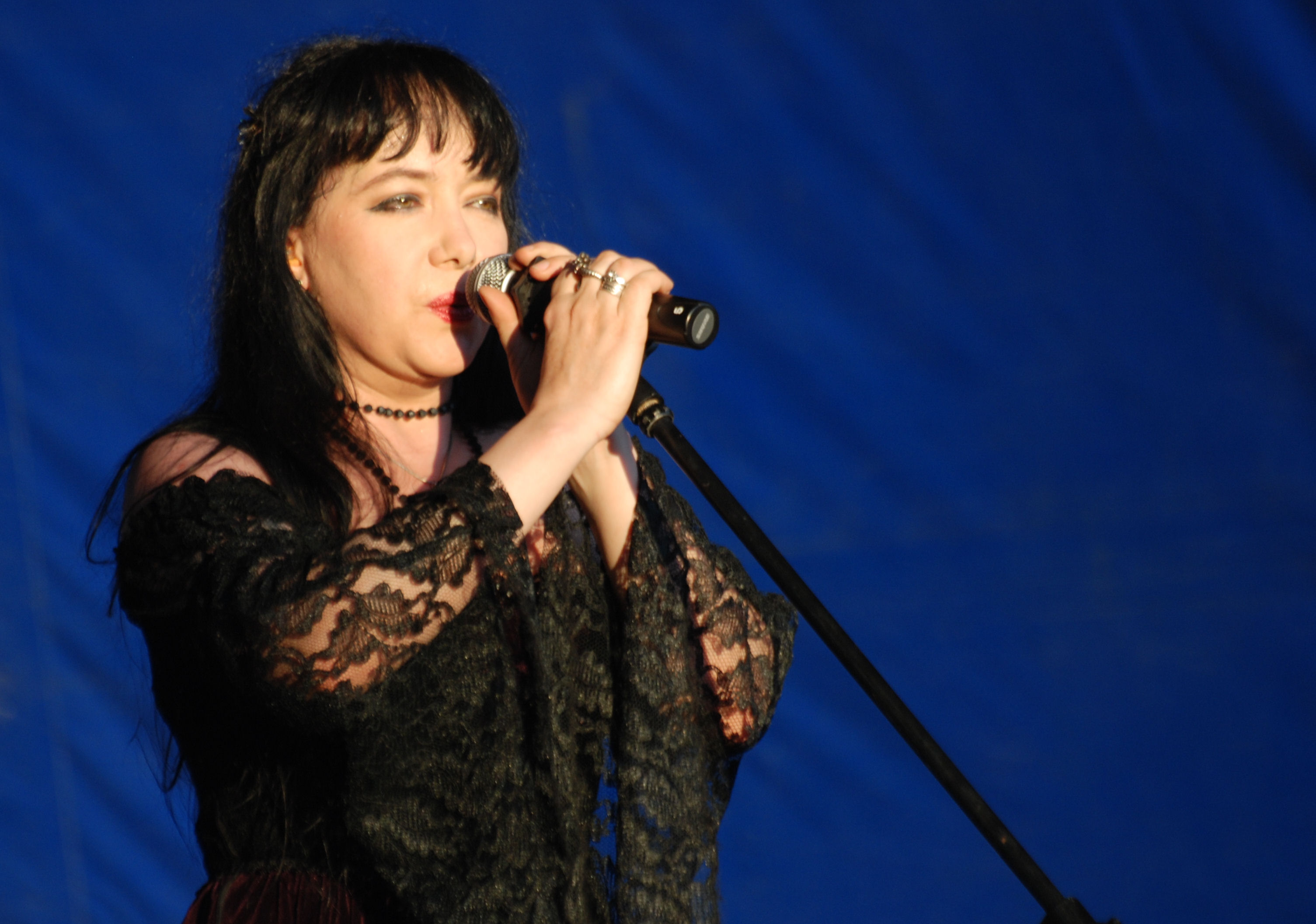 Closterkeller during Castle Party 2008 CASTLE PARTY PRODUCTIONS